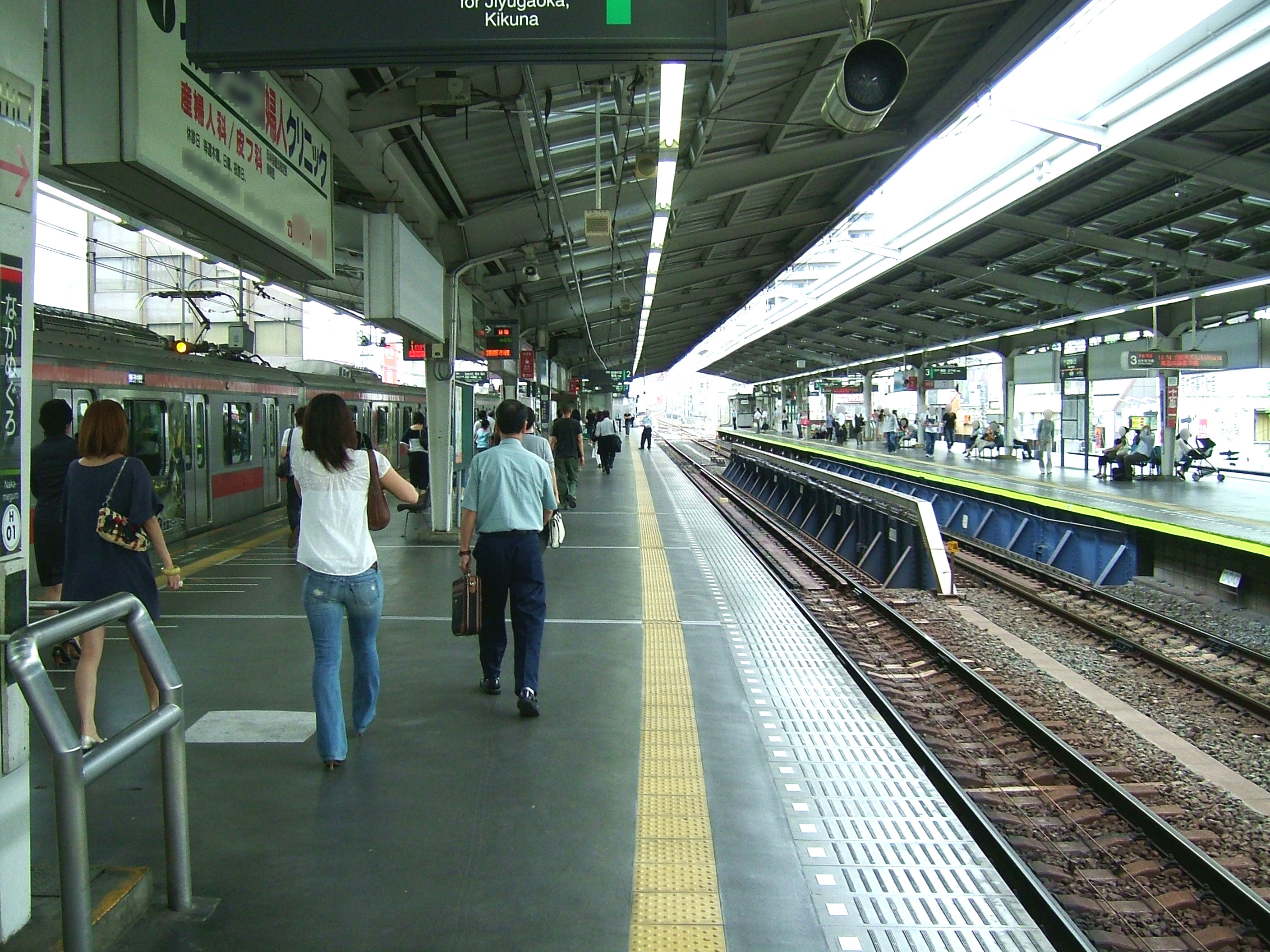 Naka-Meguro Station platform (Tōkyū Tōyoko Line, Tokyo Metro Hibiya Line)